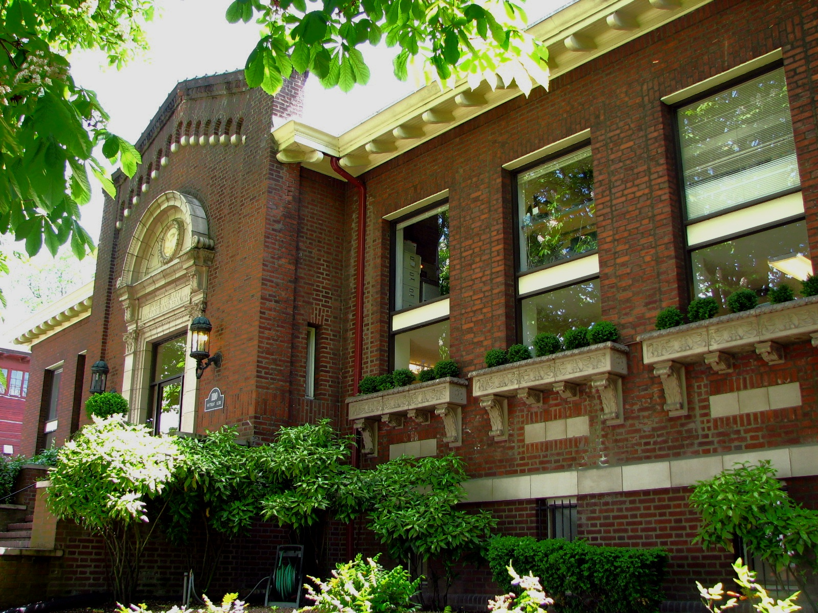 The East Portland Branch of the Public Library of Multnomah County (built 1911), located at 1110 Southeast Alder Street in Portland, Oregon, United States, is listed ont he US National Register of Historic Places (NRHP). It is today in use as office space.